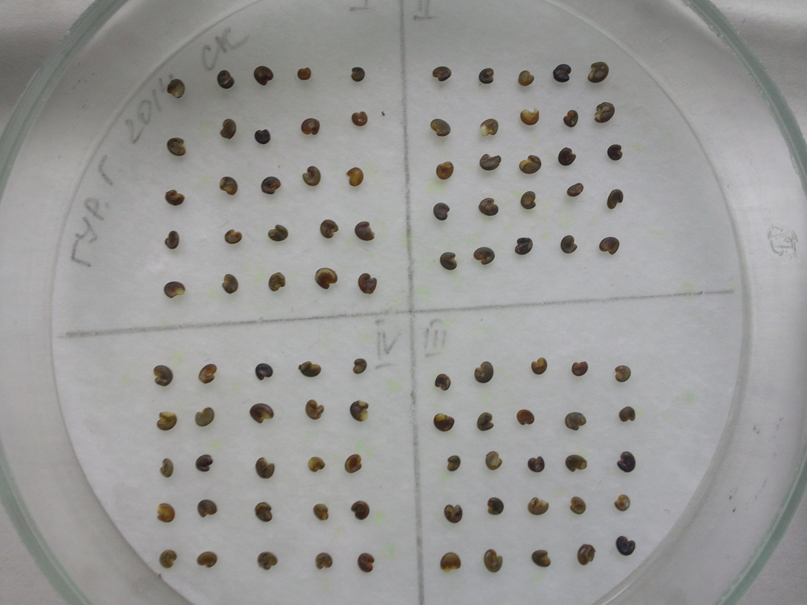 We couch seeds the next year for receiving new plants and expansion of a plantation. Life of a rare species in nursery proceeds. Our experiment shows that this endemic look can be kept in the conditions of a botanical garden.